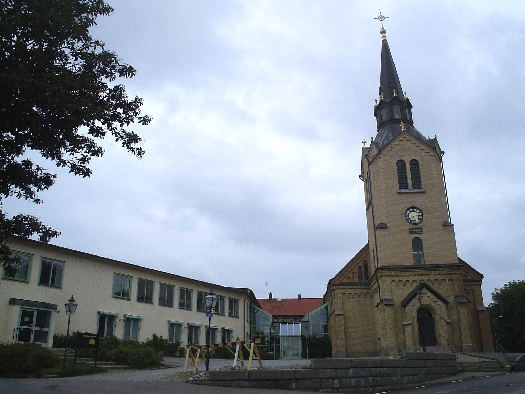 Kungshamn church.